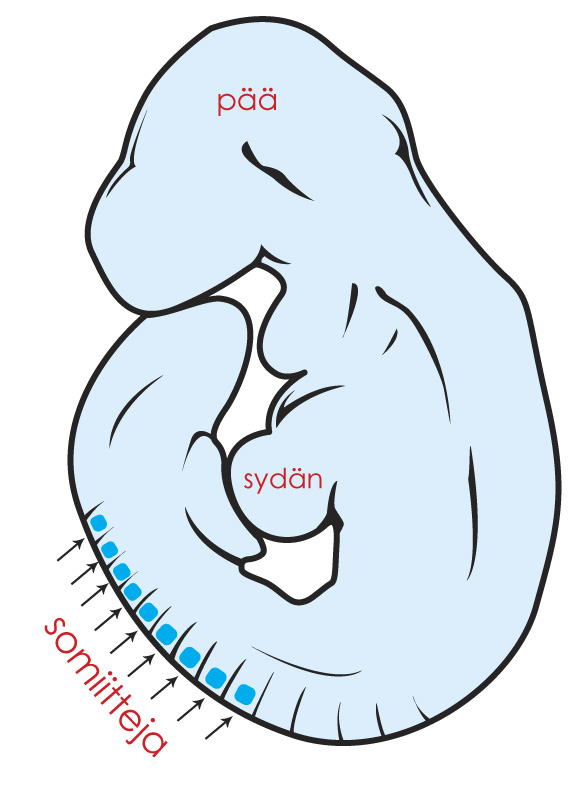 Somites, tail-side only, in mouse embryo